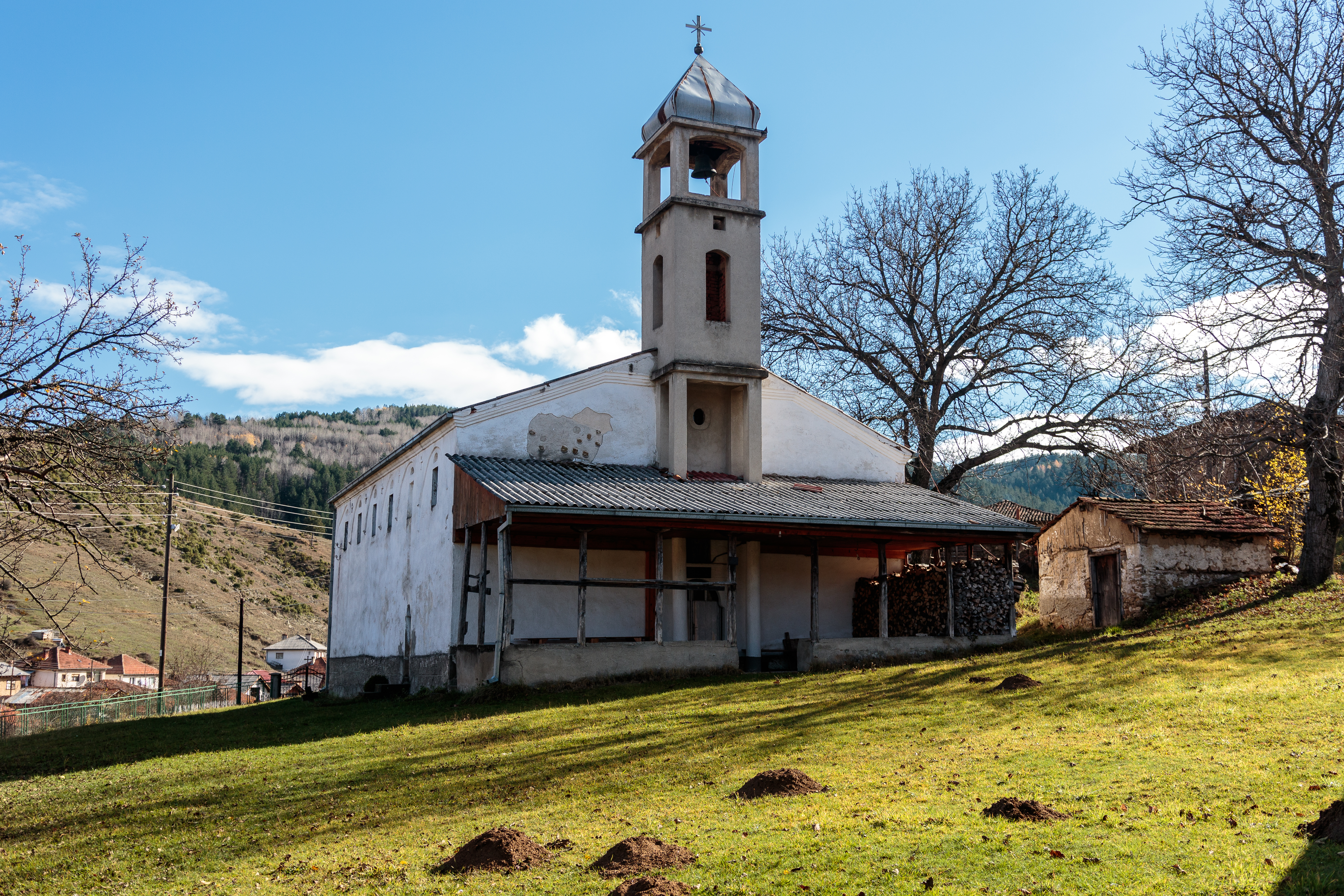 View of the Sts. Peter and Paul Church in the village Ratevo